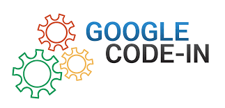 Google Code In Logo